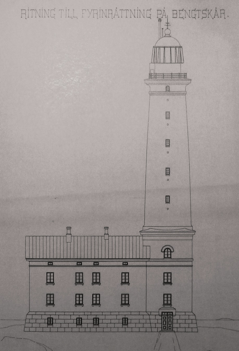 Bengtskär lighthouse, Kimitoön, Finland, by Sebastian Gripenberg ja Florentin Granholm in 1897